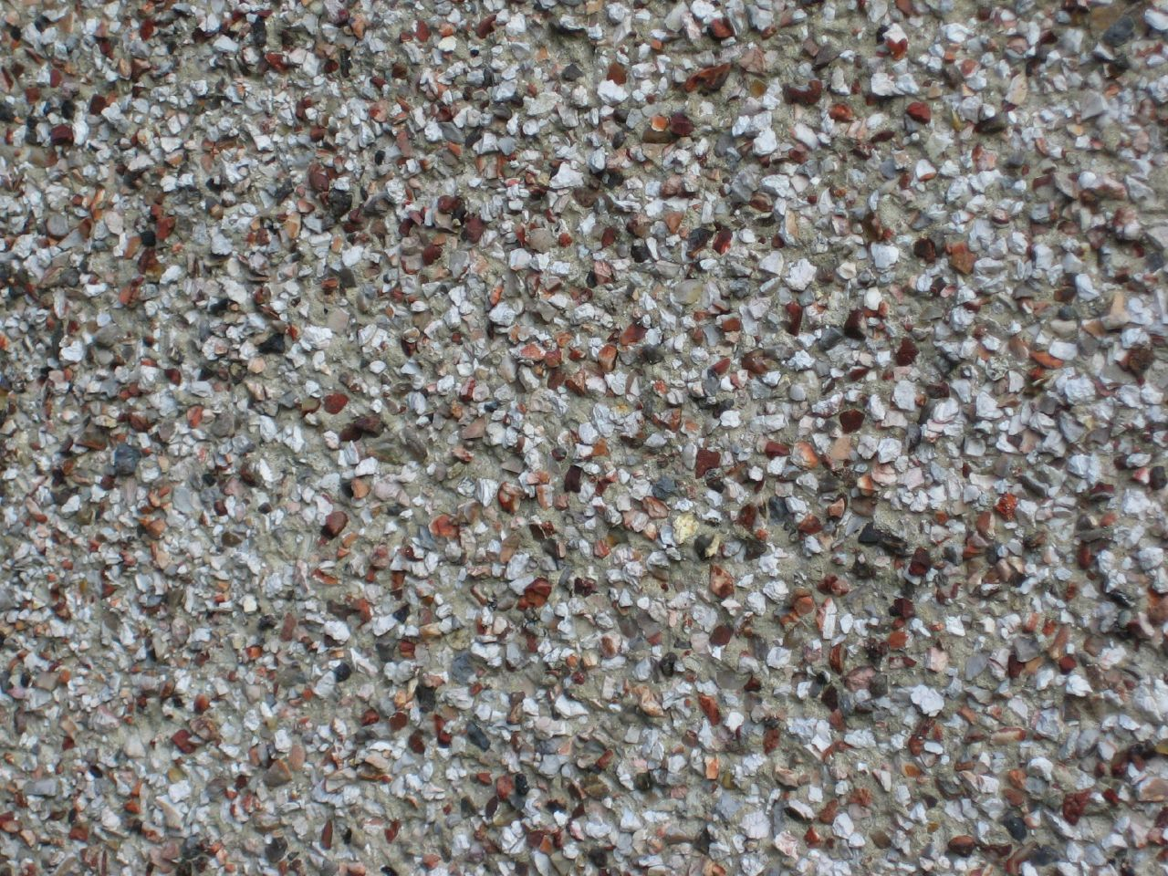 Pebbledash texture.